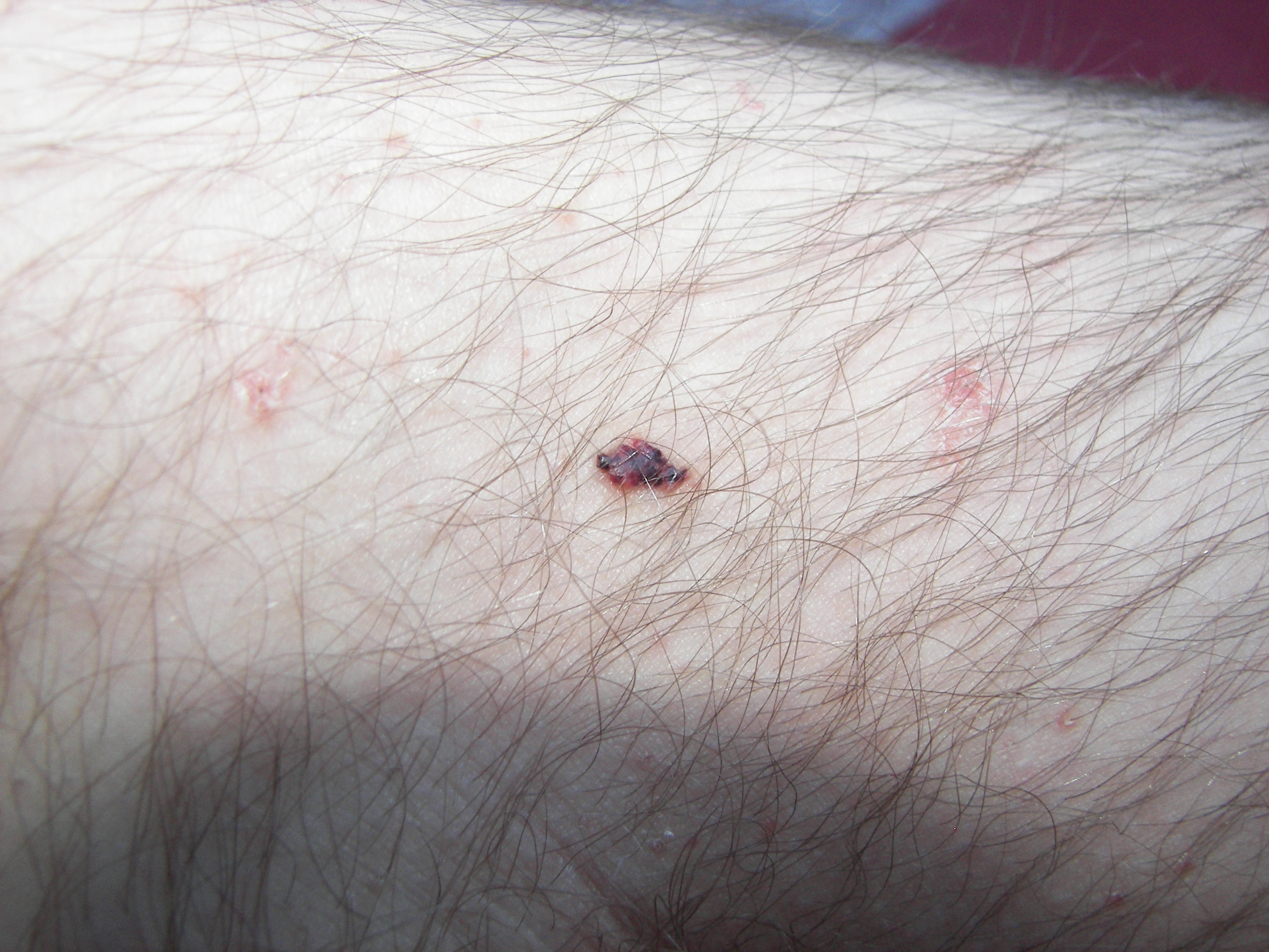 A picture of a cherry angioma on my left leg. It's been measured as approximately 7mm x 3mm.